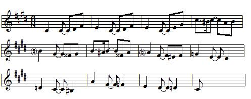 First Theme of Mjaskowski's second Symphony